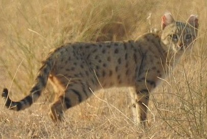 This image was taken in a grass land located about 90 kms from Bikaner in Jodhpur district, Rajasthan India.